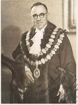 Frank Beaurepaire, champion Australian swimmer of the 1900-1920s